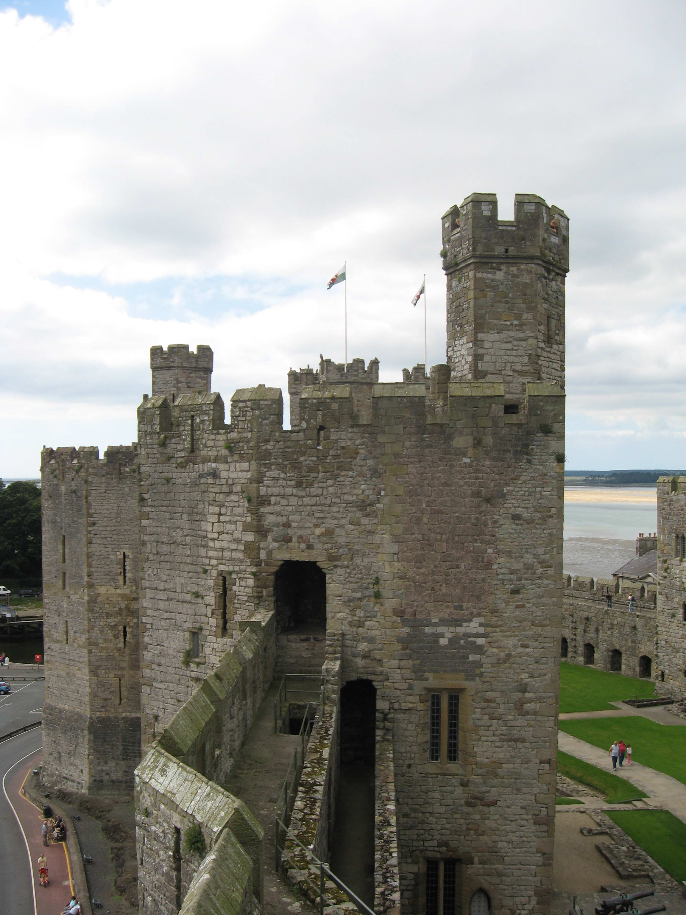 Caernarfon Castle:The Chamberlain Tower